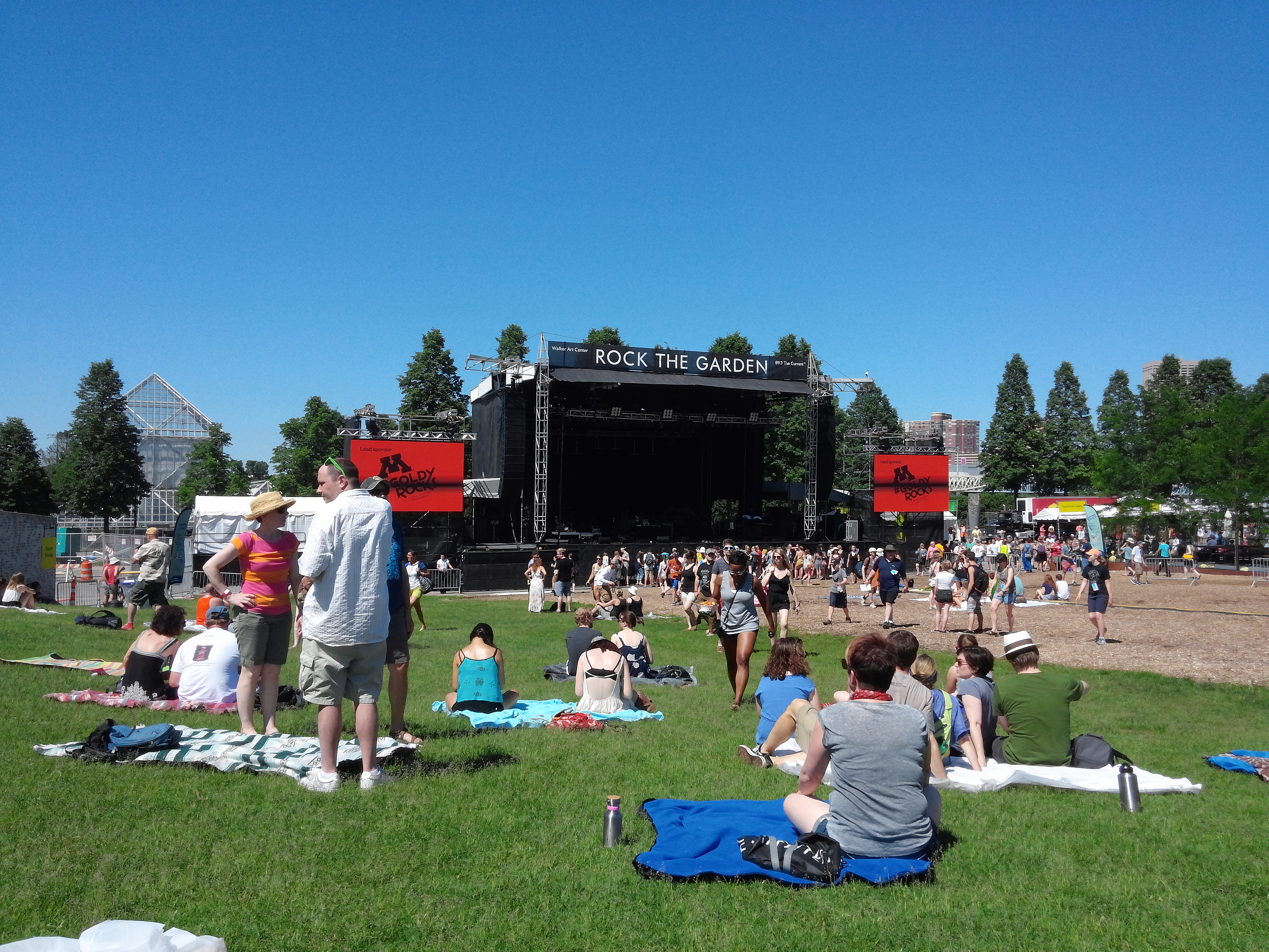 The stage at Rock the Garden at the Walker Art Center in Minneapolis, Minnesota.